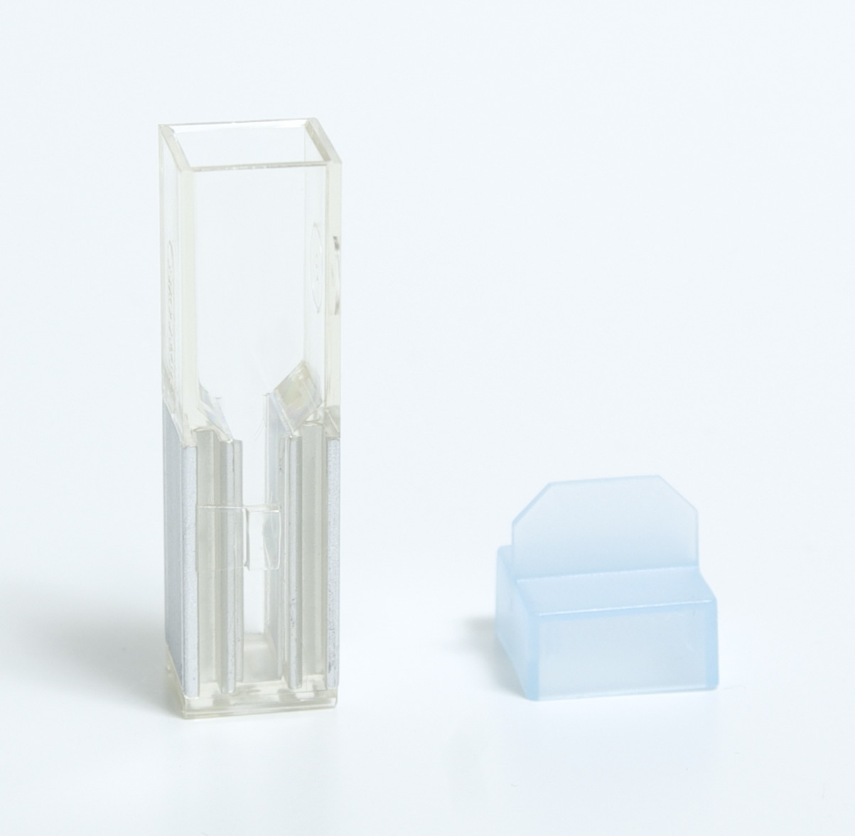 Cuvette for electroporation.